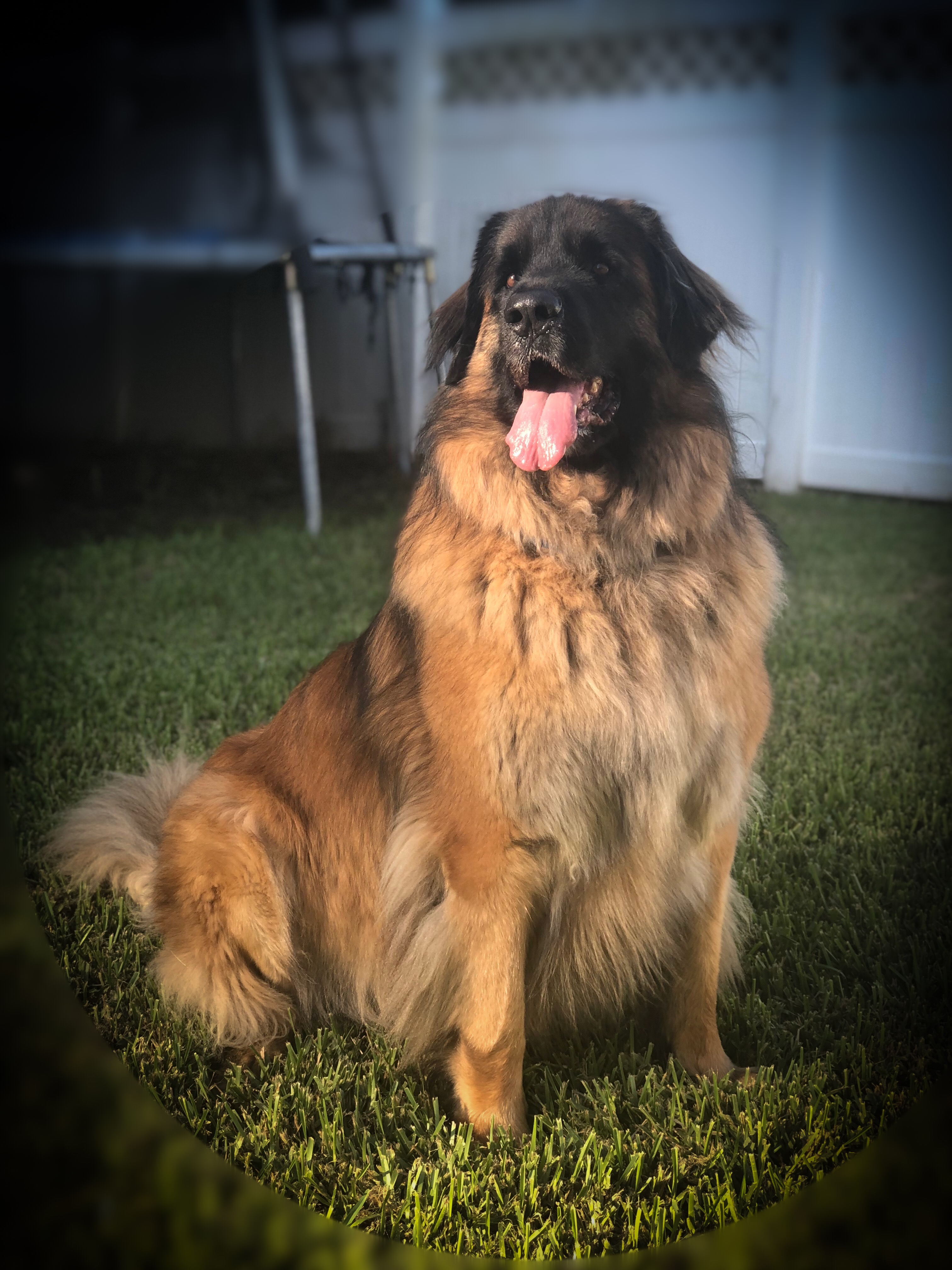 Leonberger, Male, Three years old, Jacksonville Florida, September 2018